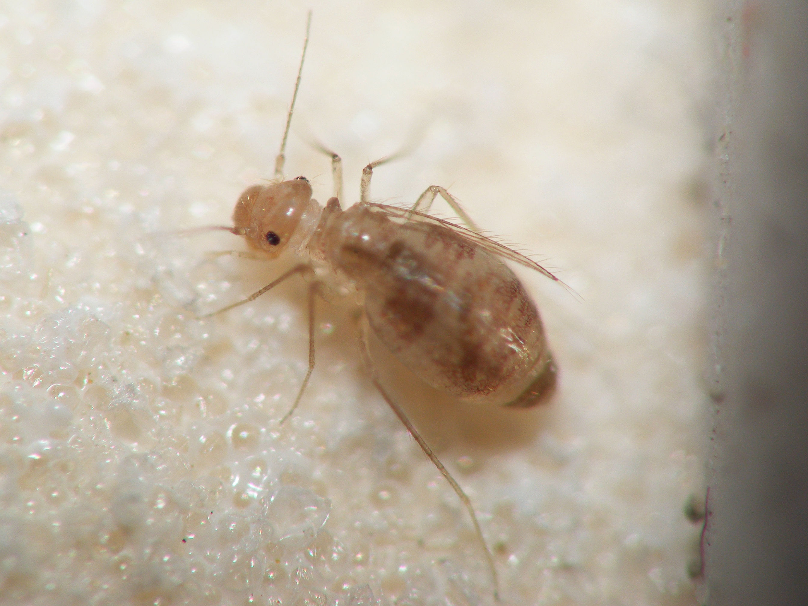 Domestic bark louse species Dorypteryx domestica Location: Hengelo, Netherlands Keywords: Psocodea, Psocoptera, Psocid, Domestic, Brachypterous.